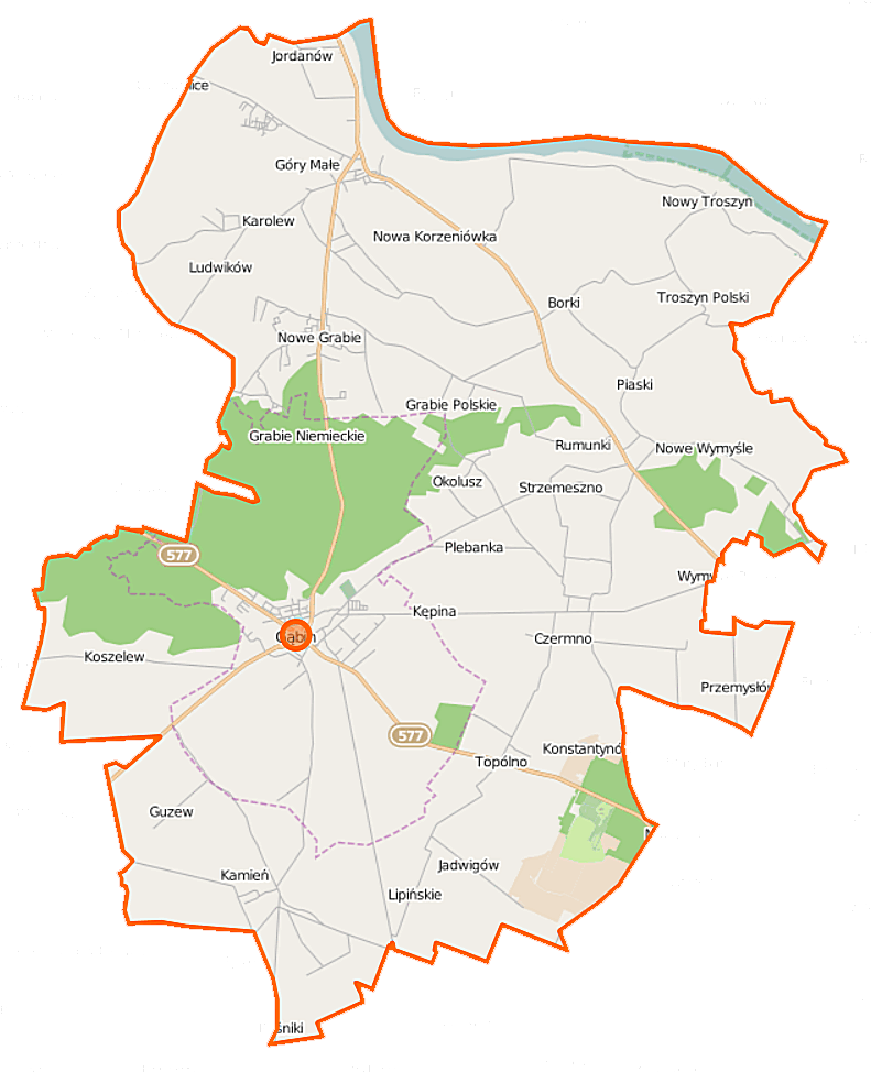 Map of Gmina Gąbin, Poland This map of Gąbin (gmina) was created from OpenStreetMap project data, collected by the community. This map may be incomplete, and may contain errors. Don't rely solely on it for navigation. Border coordinates52.496119.6572←↕→19.873552.3332